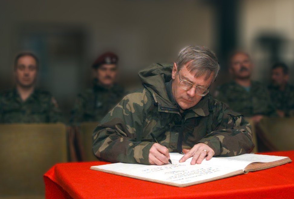 Walter Becker Slocombe in Bosnia-Herzogovina